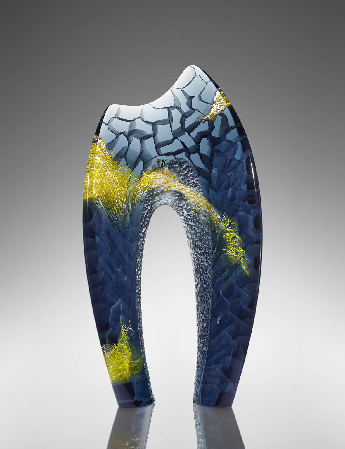 Michael Behrens, Seaform 259, 2017, 70 x 36 x 13 cm, photo Norbert Heyl